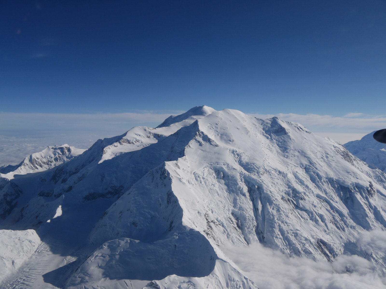 Denali, from the northeast at 17,500 feet.